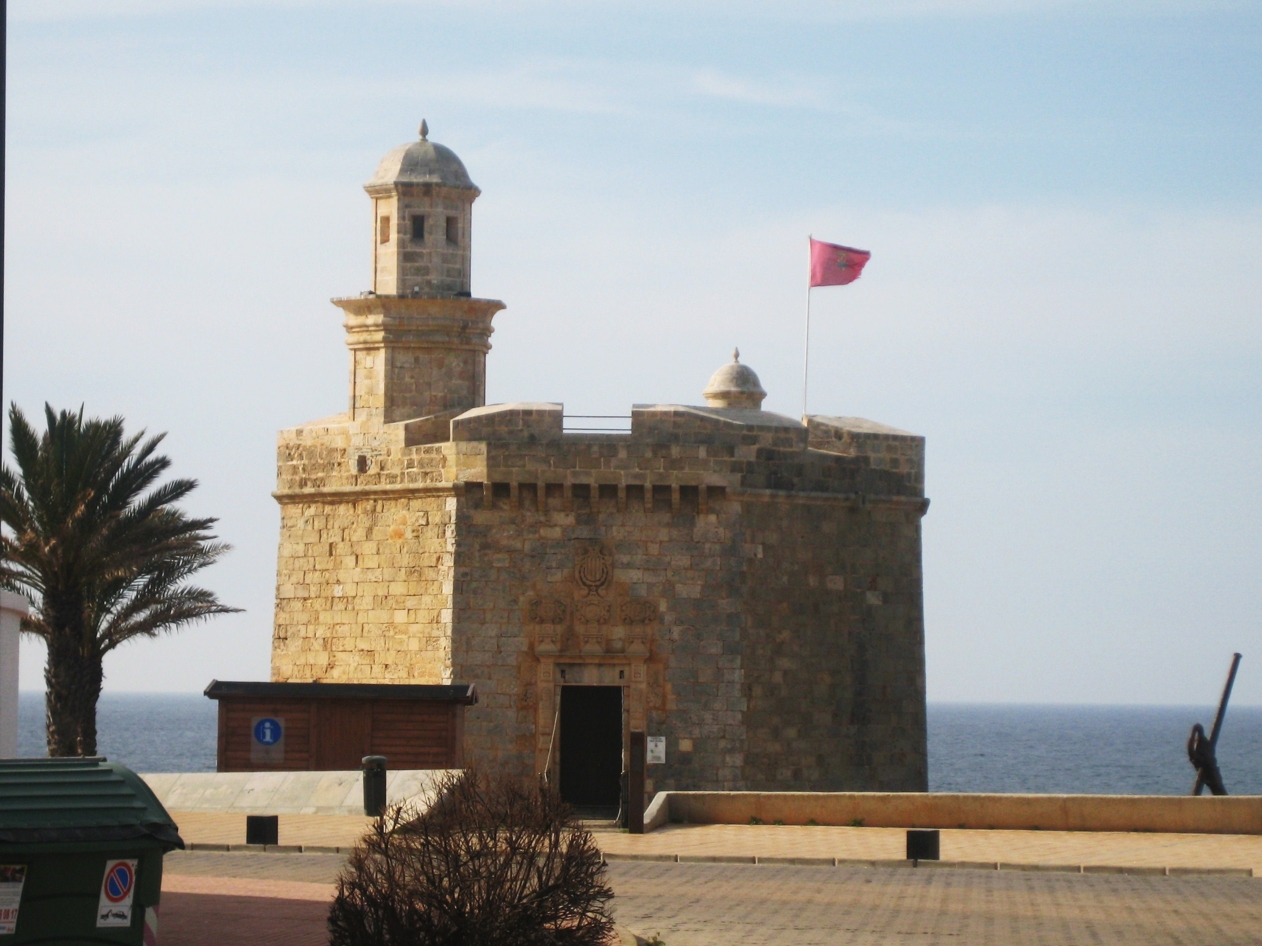 The Sea Fortress in Ciutadella, Menorca, Spain